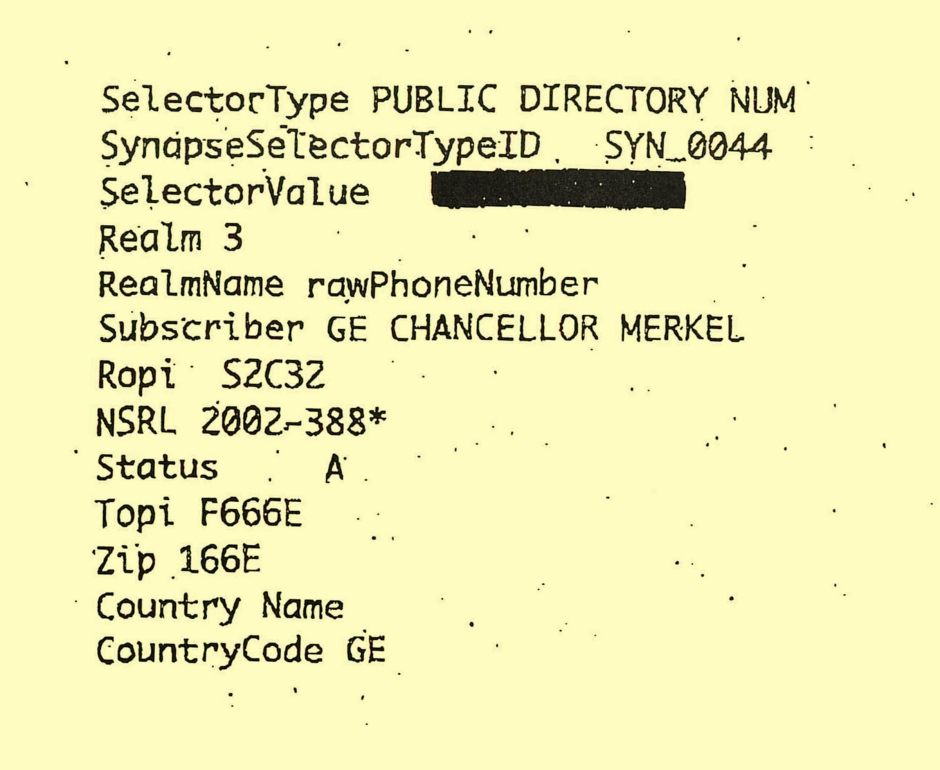 Data used by the NSA to spy on chancellor Merkel